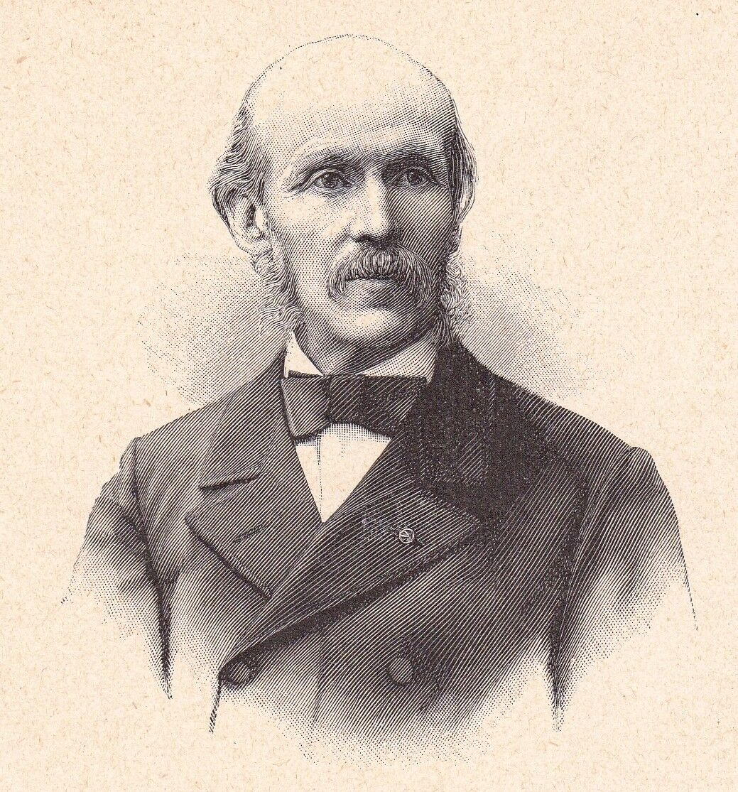 Alphonse Milne-Edwards (Paris, October 13, 1835 – Paris, April 21, 1900)